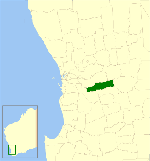 Description=Location of the Local Government Area in Western Australia